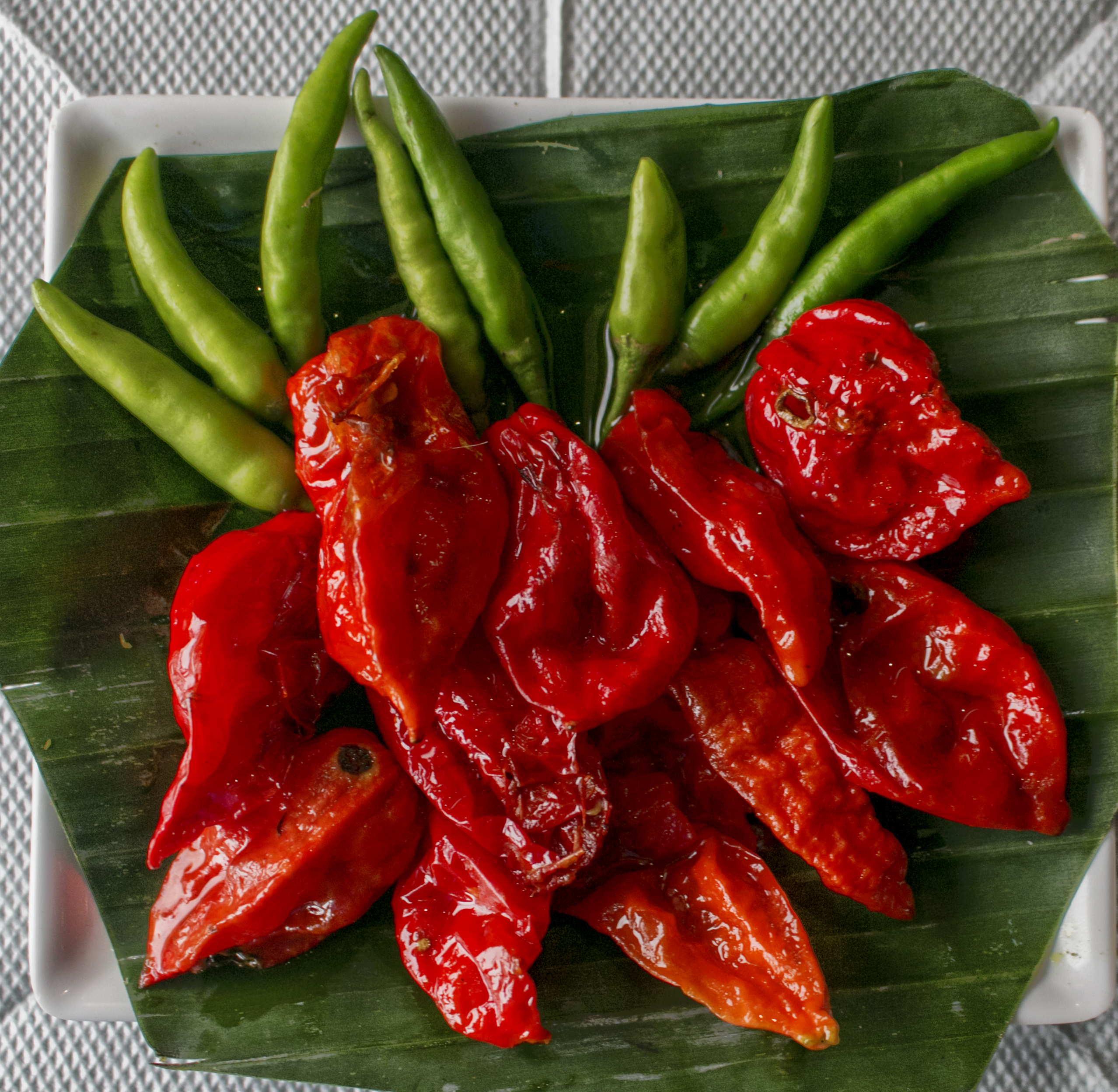 The bhut jolokia (Template:Lang-asভূত-জলকীয়া), also known as naga jolokia, naga morich, bih jolokia, ghost pepper, ghost chili pepper, red naga chilli, and ghost chilli is an inter specific hybrid chili pepper cultivated in the Indian states of Assam, Nagaland and Manipur. It grows in the Indian states of Assam, Nagaland, and Manipur. There was initially some confusion and disagreement about whether the bhut jolokia was a Capsicum frutescens or a Capsicum chinense pepper, but DNA tests showed it to be an interspecies hybrid, mostly C. chinense with some C. frutescens genesঅসমীয়া: ভূত-জলকীয়া